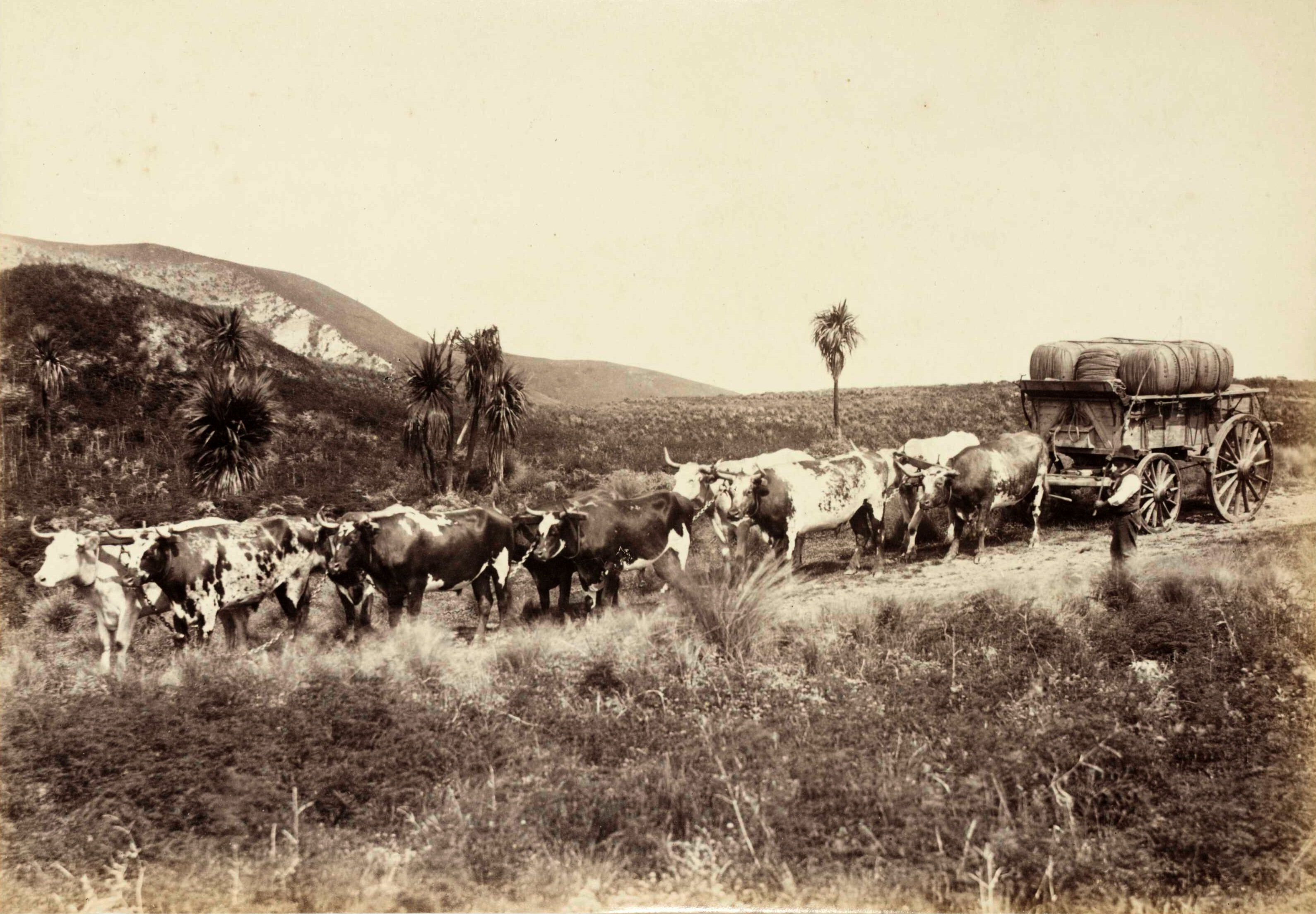 A bullock wagon team taking wool from a station (farm) in New Zealand down to Gore Bay during the early European pioneer days around the 1880s. Extended information on origin webpage reads: Bullock team and wool wagon, Cheviot, New Zealand [1880-1889] / Reference number: PA1-o-497-27 / 1 b&w original photographic print(s). Albumen print, 26 x 14.3 cm, mounted on album page. / Part of Tonks album (PA1-o-497) Photographic Archive / Scope and contents: Bullock team and wool wagon taking Cheviot Station wool to Port Robinson in Gore Bay. Photographed by F Bradley & Co sometime in the 1880s. / Historical notes: At the time that this photograph was taken Cheviot Station was owned by William (Ready Money) Robinson. He died in 1889, and his heirs sold the station to the Government in 1893.